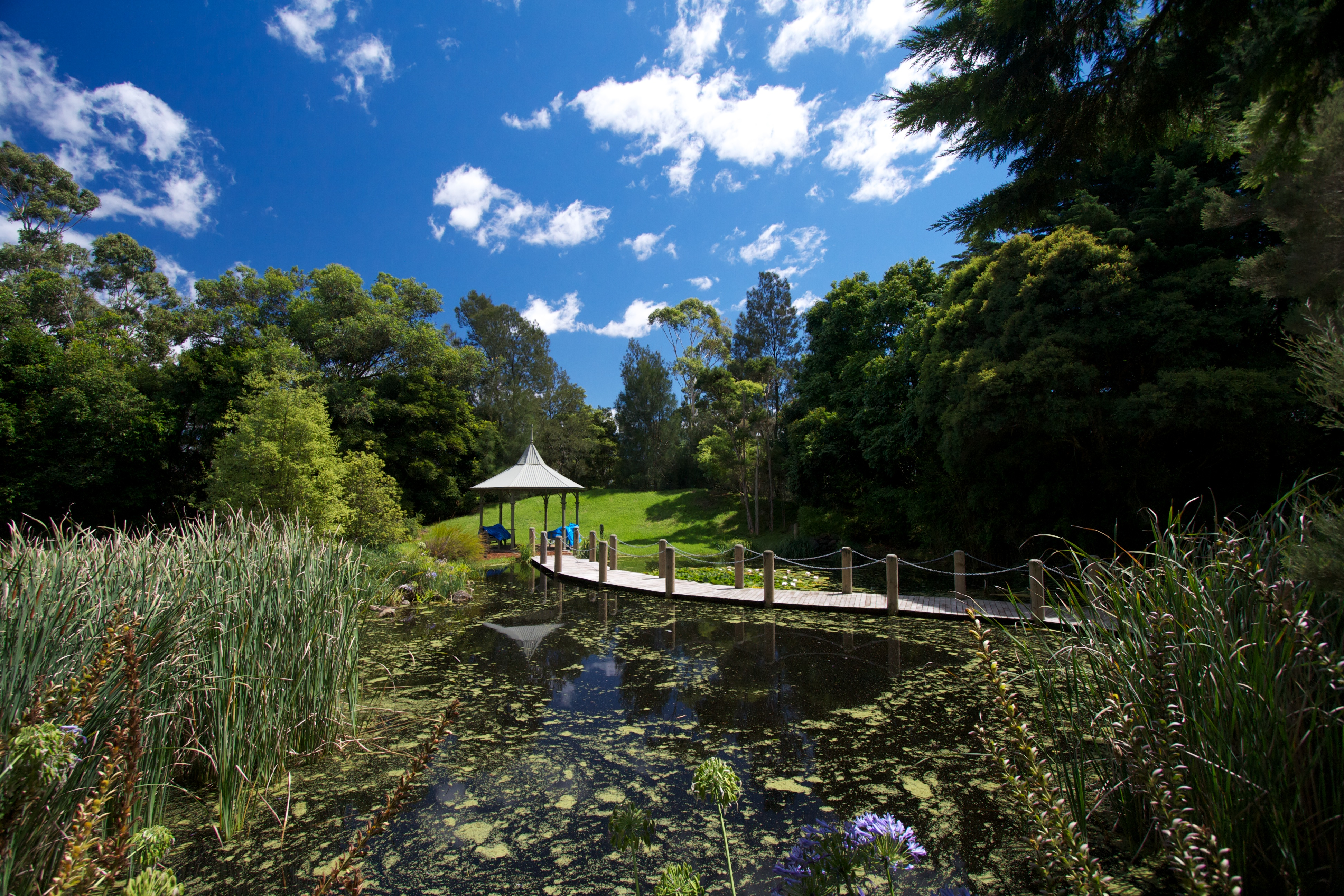 The Lassiter's Lake set from the Australian soap opera Neighbours.